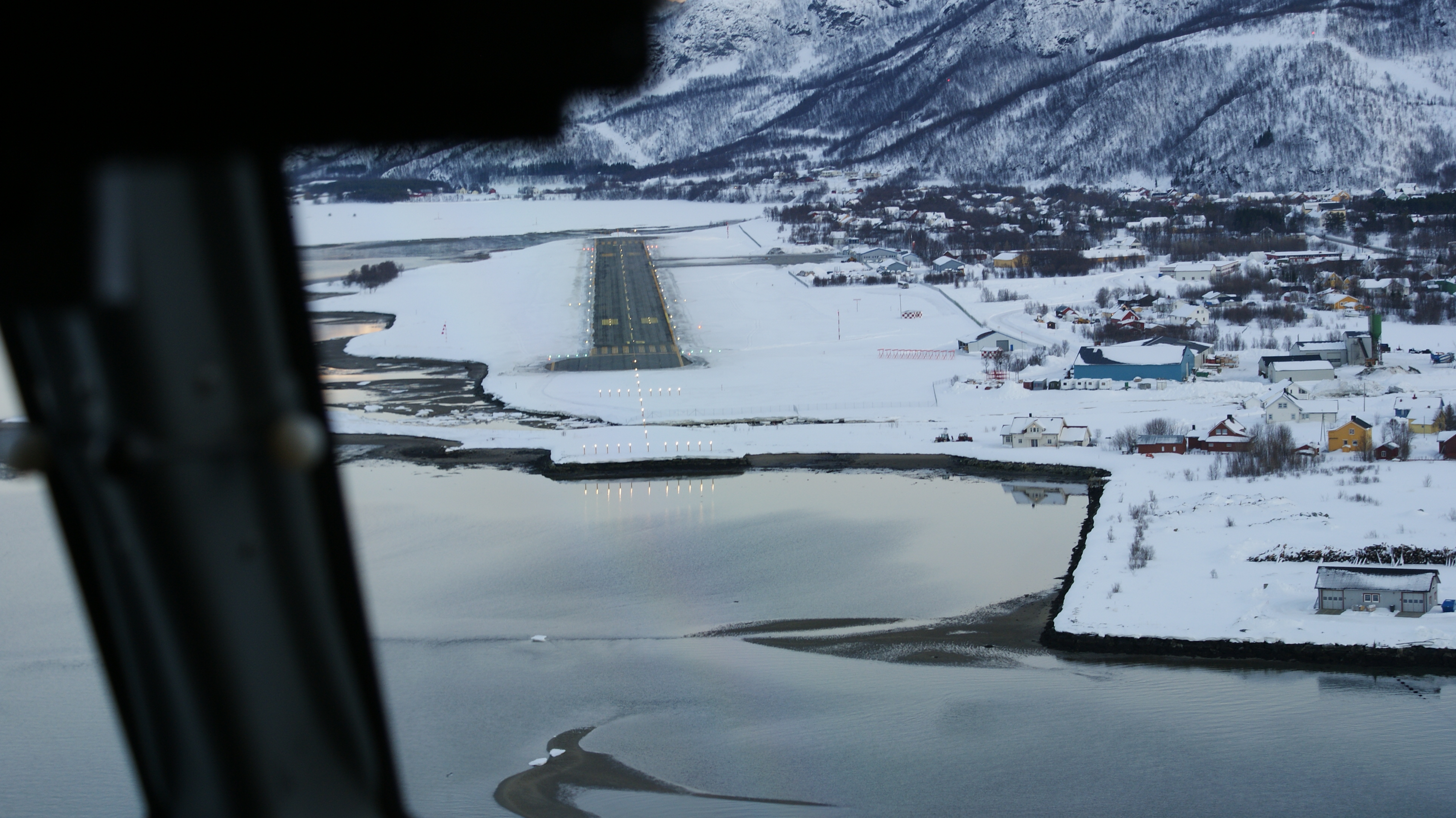 Sørkjosen Airport, Nordreisa, Troms, Norway. Runway as seen from the cockpit of Widerøe de Havilland Canada Dash-8 103 during approach from the north over southern Reisafjorden.